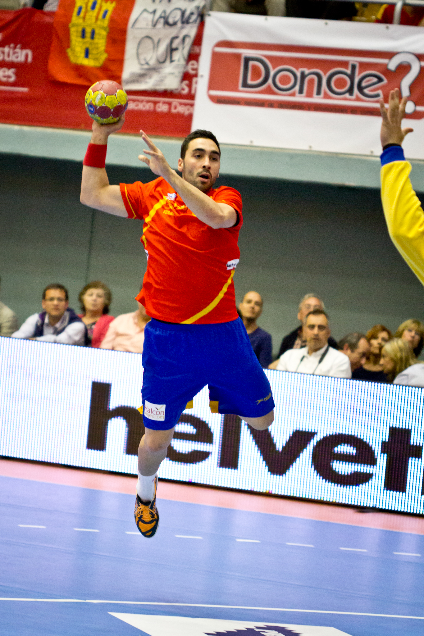 Spain Handball All Star Game 2013, held in San Sebastián de los Reyes, Madrid, Spain.